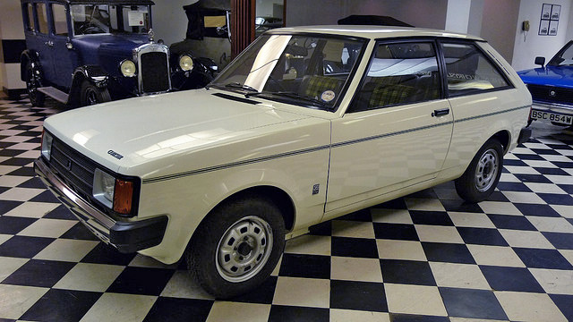 Chrysler Sunbeam at Glasgow Museum of Transport. (Also sold under Talbot and Simca brands). Original Flickr Description:- "Right-hand drive Dodge Omni for the UK. I wonder if anyone bought these?"